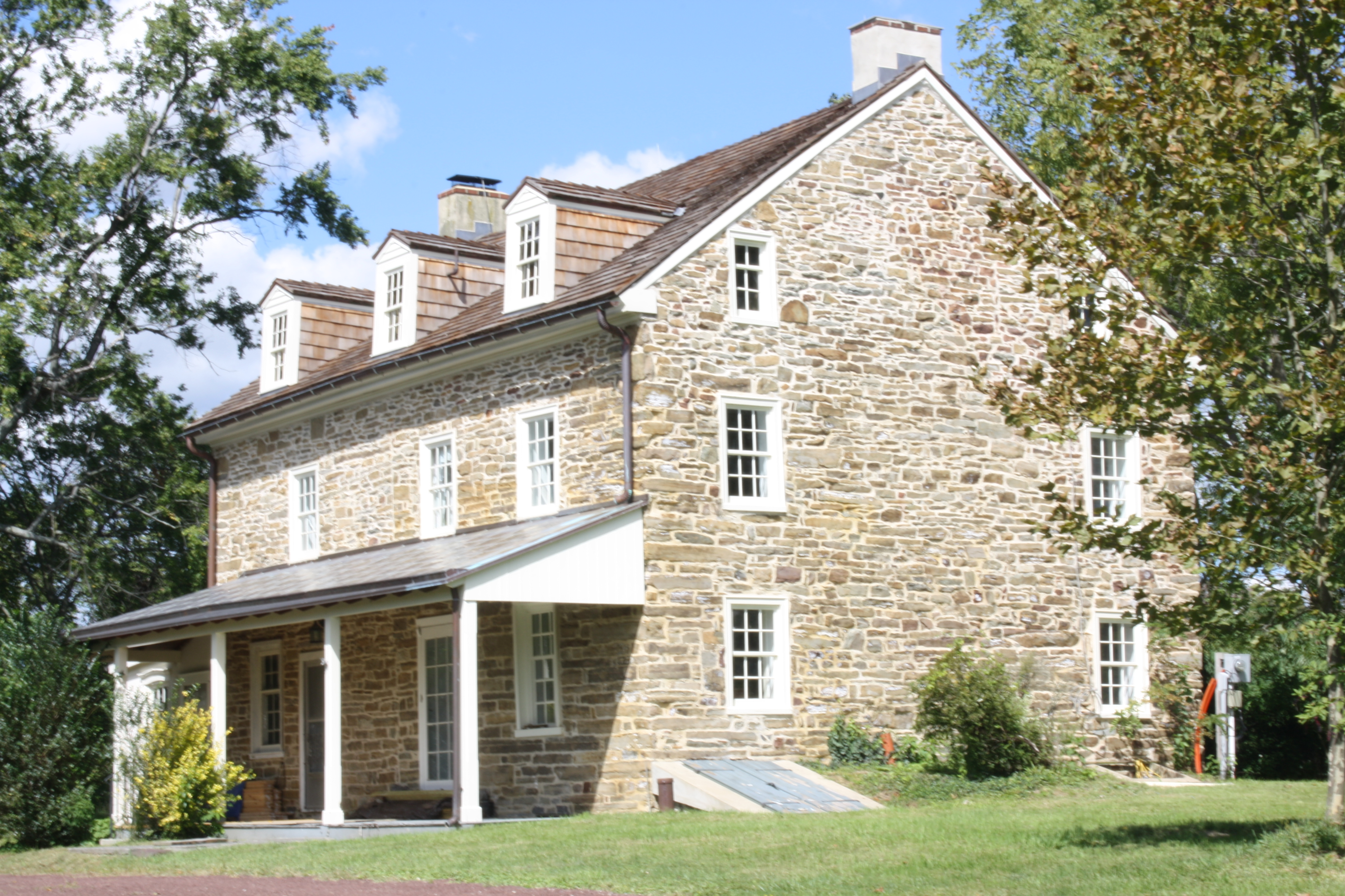 Knapp Farm The Knapp Farm, historic farmhouse (built 1760) located at the corner of Rt. 202 (Dekalb Pike) and Knapp Road in Montgomery Township, Montgomery County, Pennsylvania.